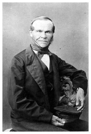 Petter Henrik Junnelius, the leader of tar barrel wholesale stocks of Oulu.